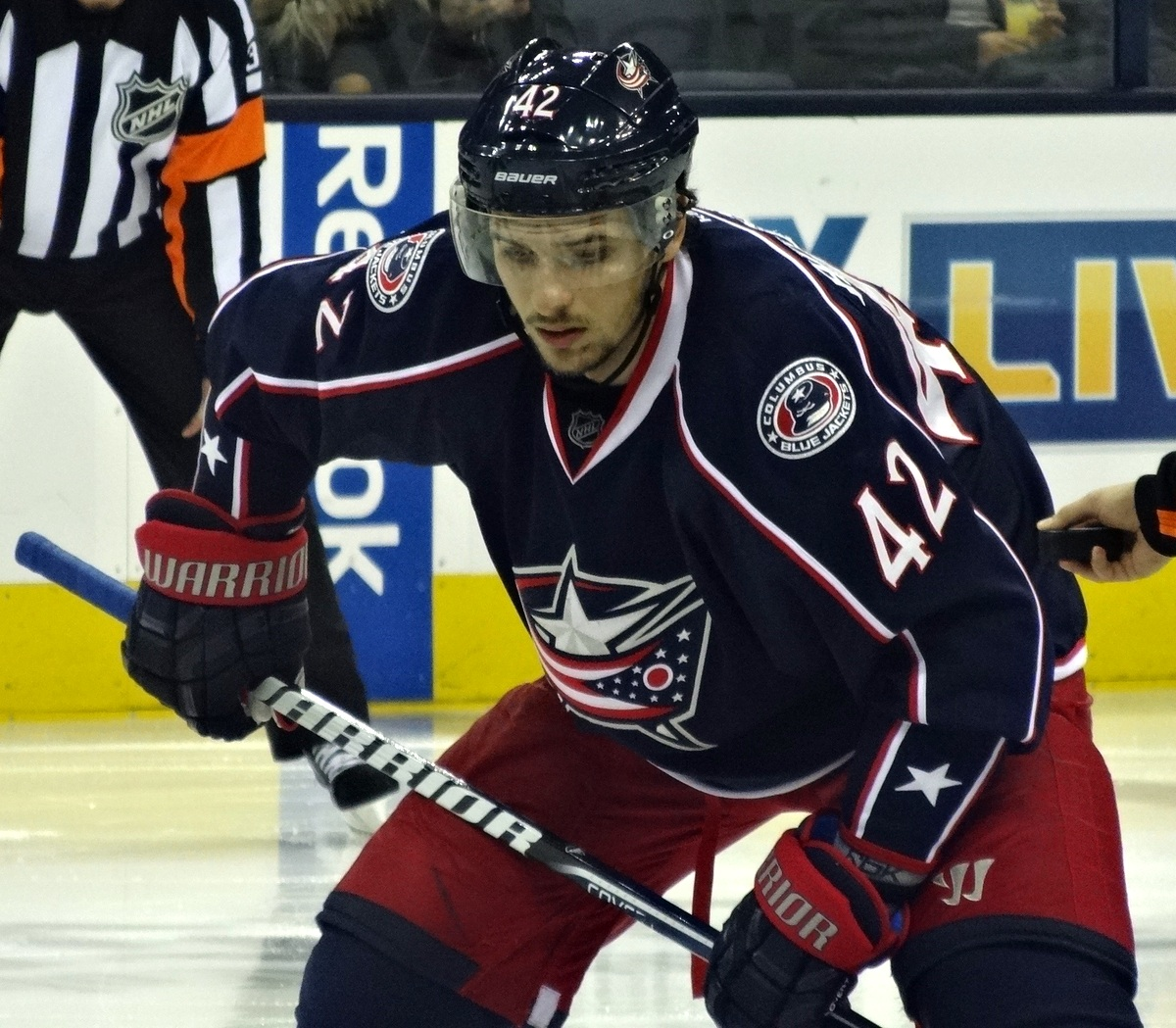 Columbus Blue Jackets forward Artem Anisimov during a game against the Pittsburgh Penguins, November 2, 2013, at Nationwide Arena in Columbus, OH.